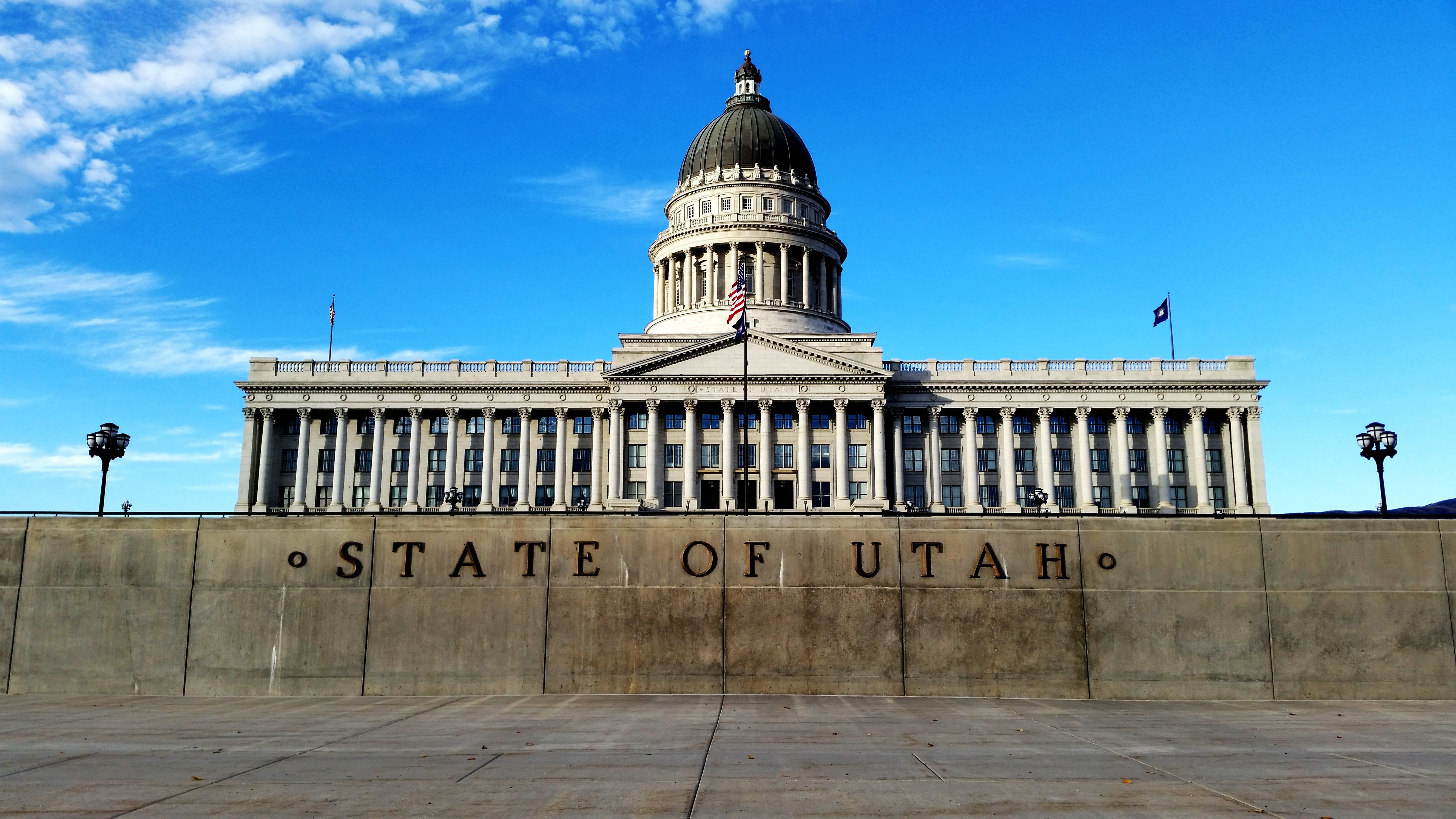 Utah State capitol building